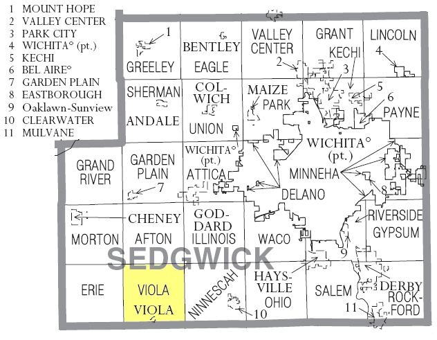 Map of Sedgwick County, Kansas highlighting Viola Township